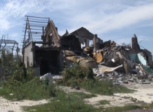 House destroyed during the war in Donbass, July 22, 2014.